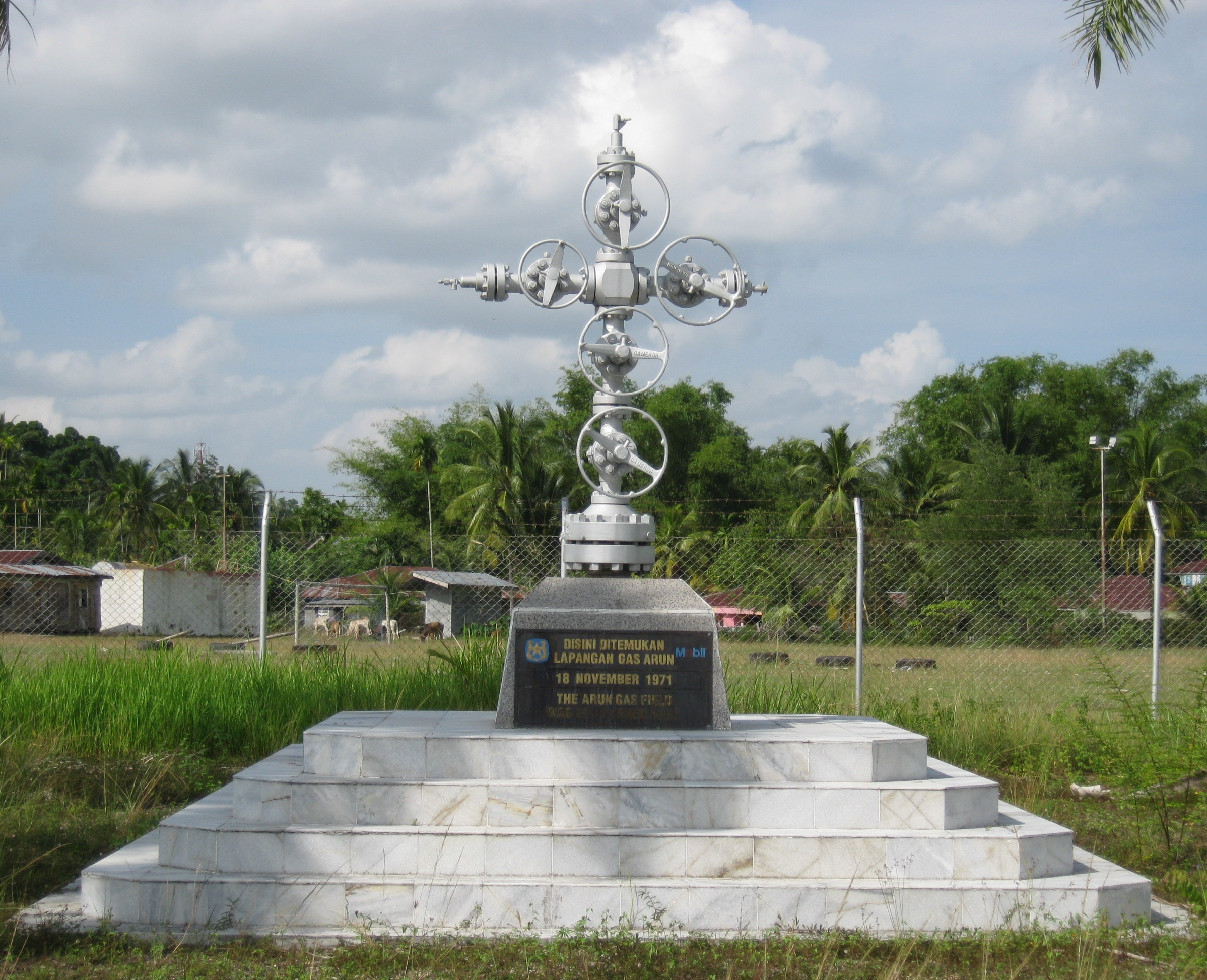 first point of liquefied natural gas arun found in 1971 at Tanah Luas Village, North Aceh.